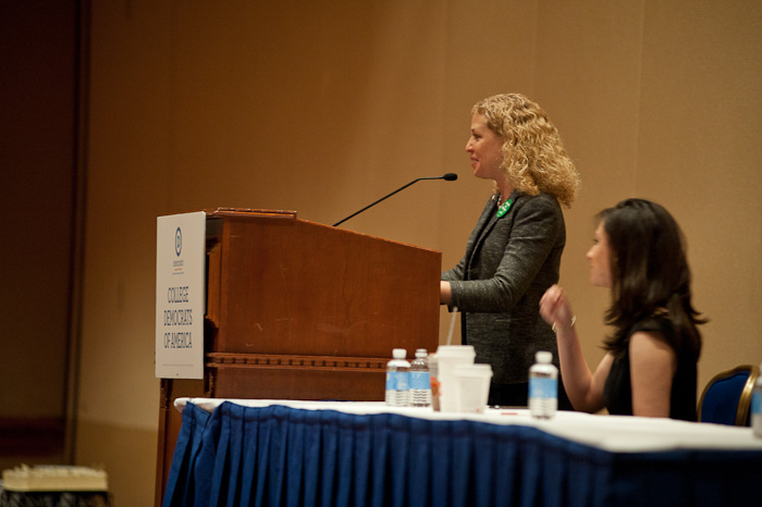 DNC Chair Rep. Debbie Wasserman Schultz speaks to College Democrats